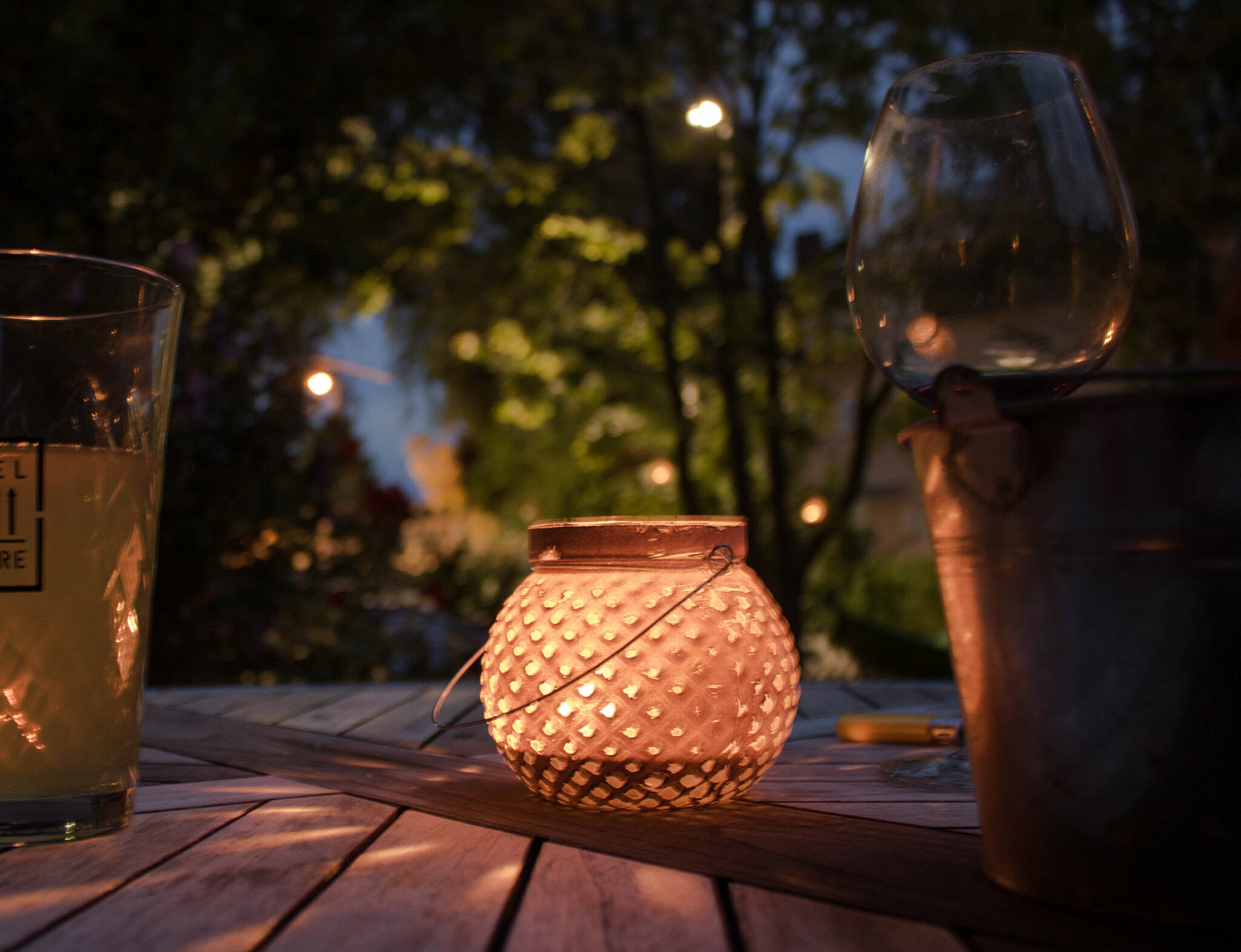 500px provided description: A summernight with appplewine [#summer ,#glass ,#candle ,#jar ,#applewine]